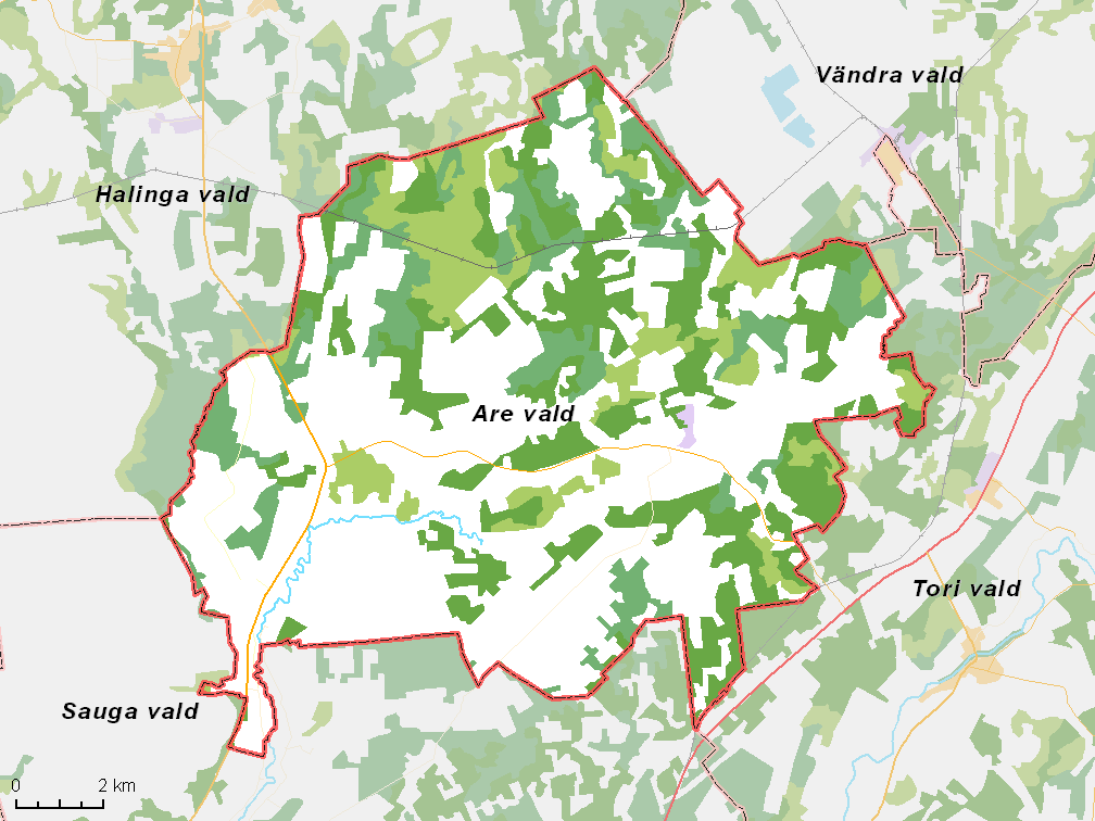 Map of municipality in Estonia